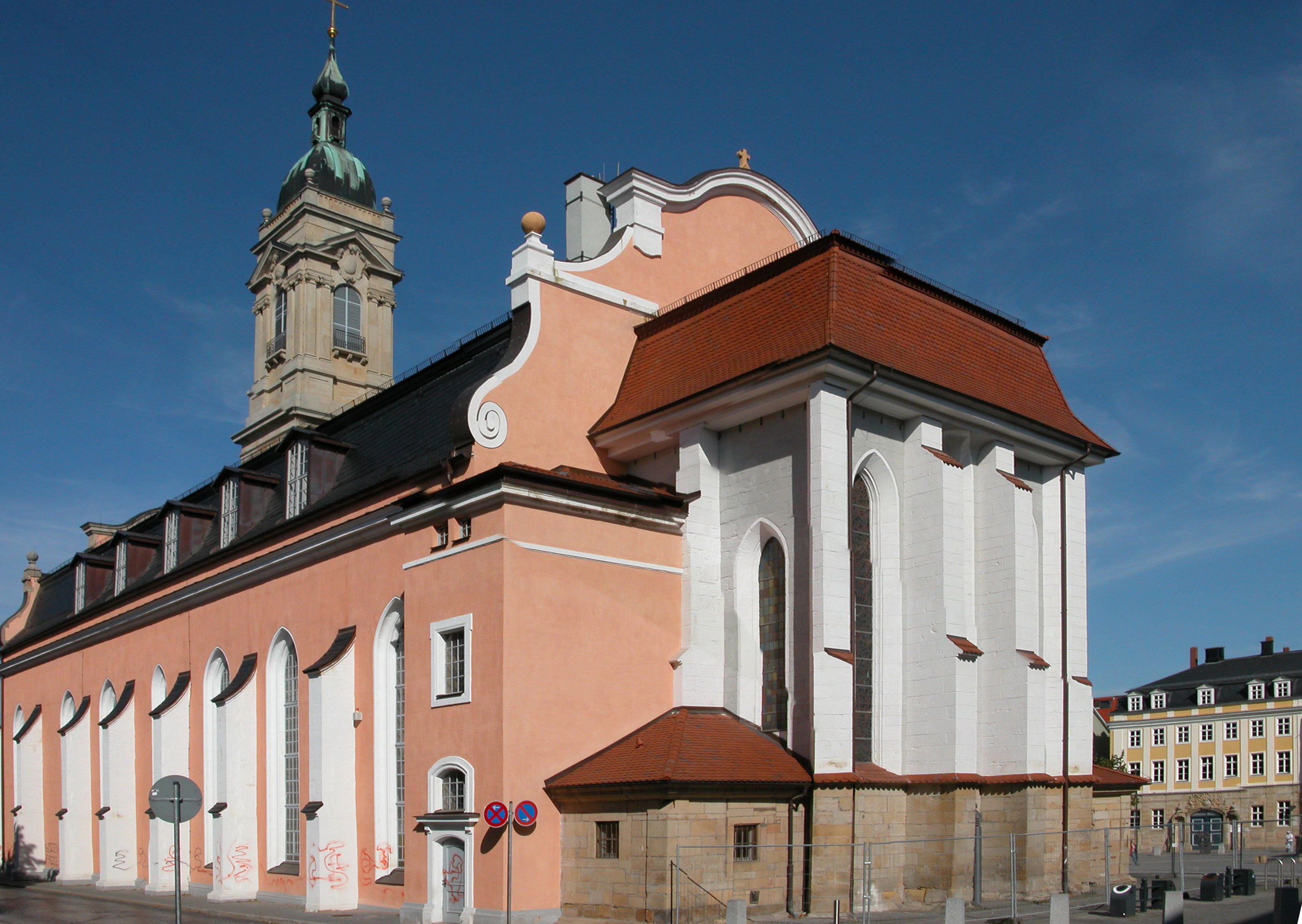 Composite image of Georgenkirche, Eisenach. Martin Luther sang as a choir boy in this Church, and Johann Sebastian Bach was baptised in it. You can see a short movie of the interior of this church here This is a photograph of an architectural monument. It is on the list of cultural monuments of Eisenach